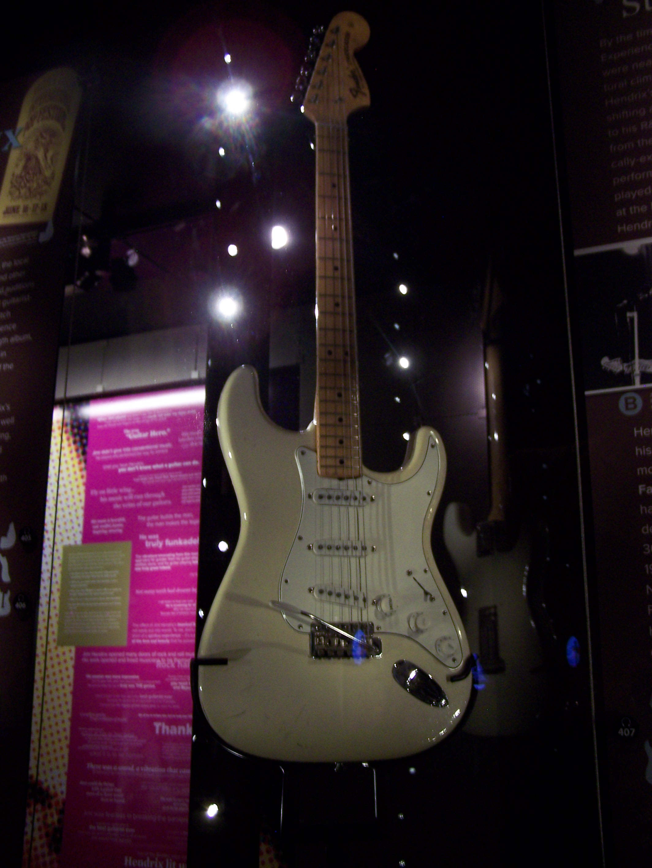 at the Experience Music Project. This is the guitar that Hendrix played the Star Spangled Banner at Woodstock.